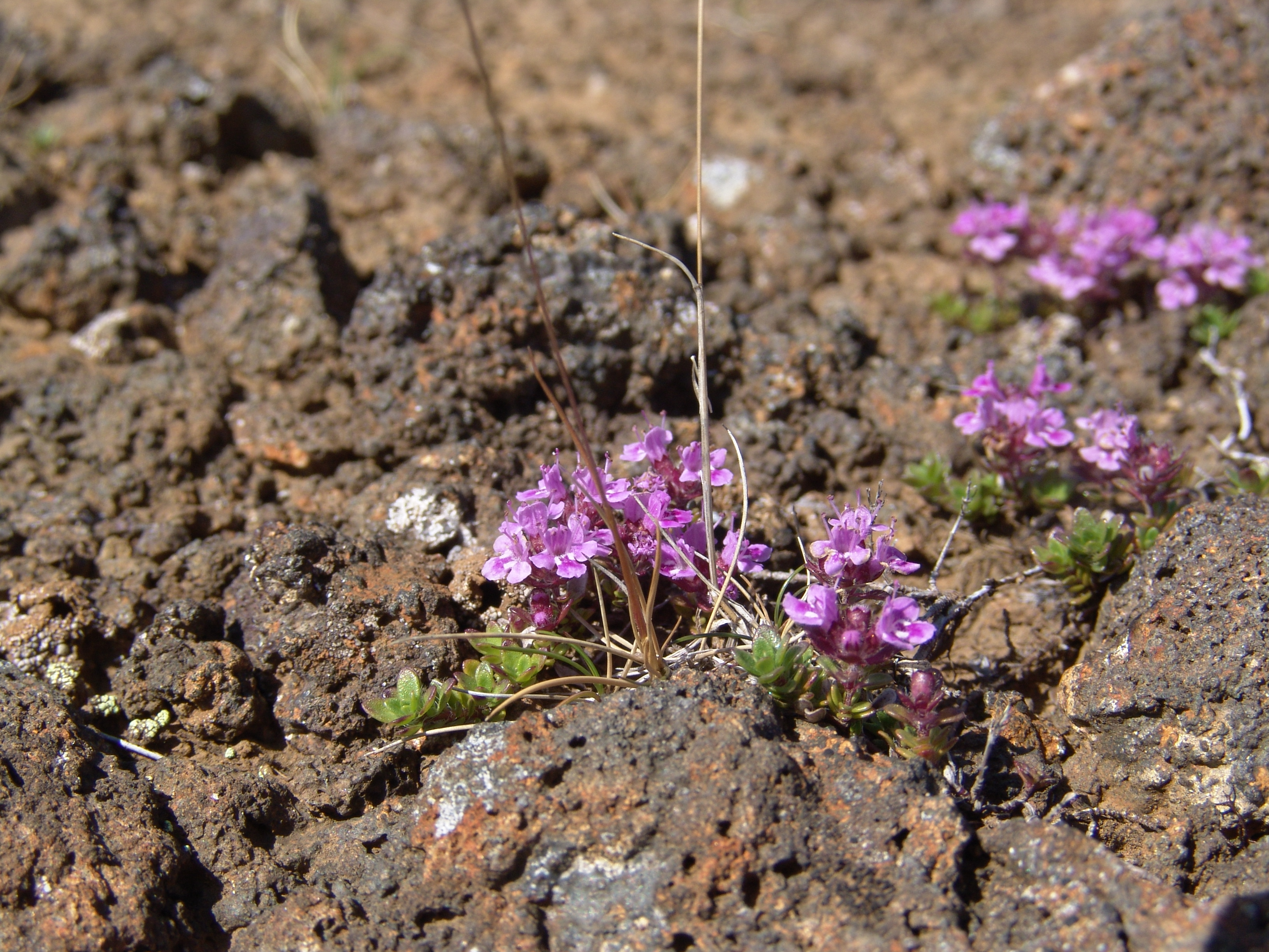 Island, Thymus species.